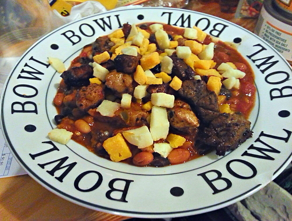 Black beans, red beans, great northern beans, pinto beans, and blackeyed peas, one can of diced tomatoes and chiles with lime and cilantro, another with chipotle peppers, along with sirloin (beef) and sirloin pork chops cubed and browned with elephant garlic in bacon grease until caramelized, onions added last so they were still crunchy, and Tabasco-brand chile sauce. Added half of the meat early to soften, threw the other half on top of each bowl, to stay crispy. Crumbled cheddar and monterey jack cheese.